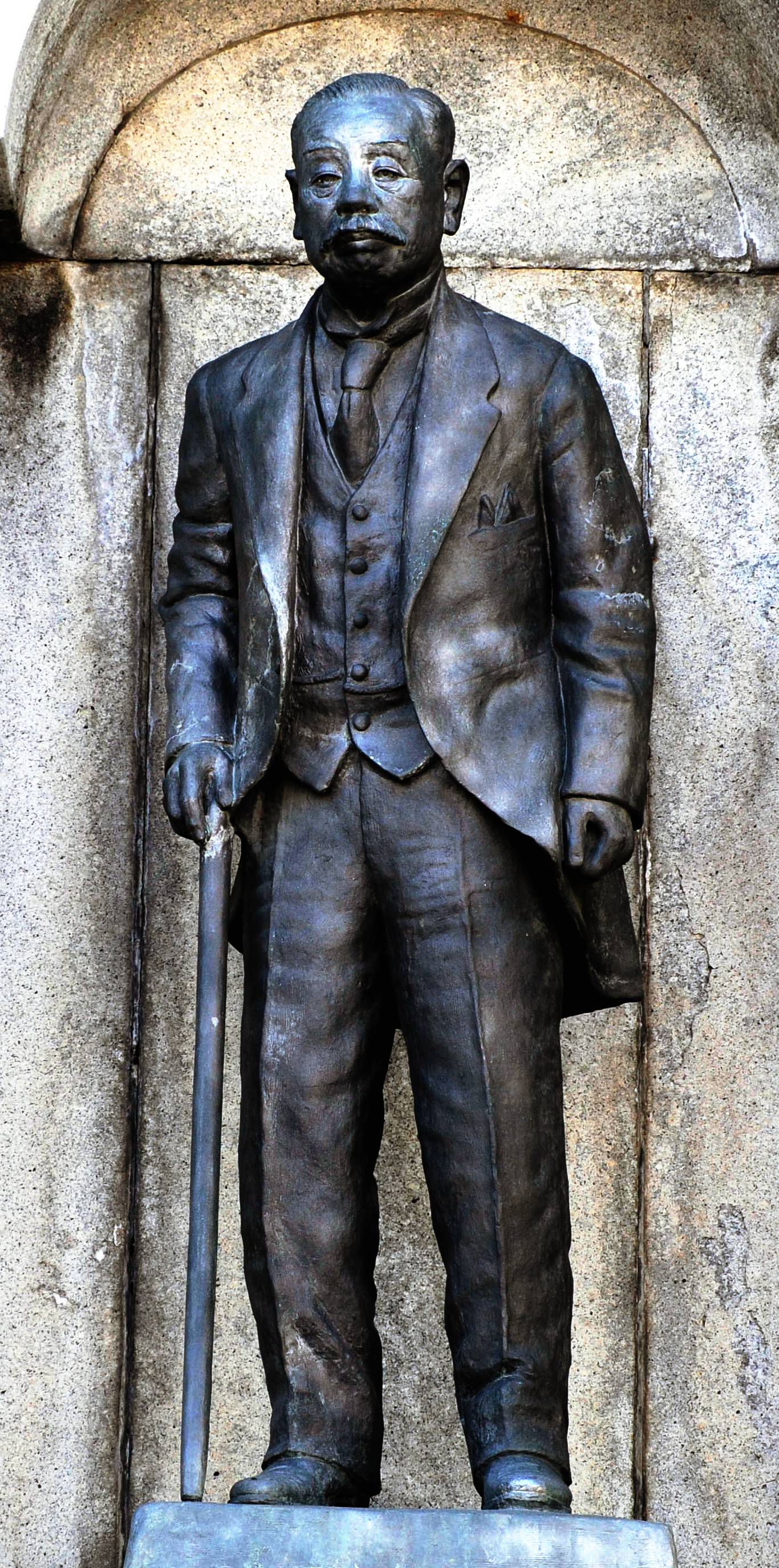 Ozawa Fukutarō ō Juzō is situated in Okaya City, Nagano Prefecture. The statue was made by Naoya Takei.